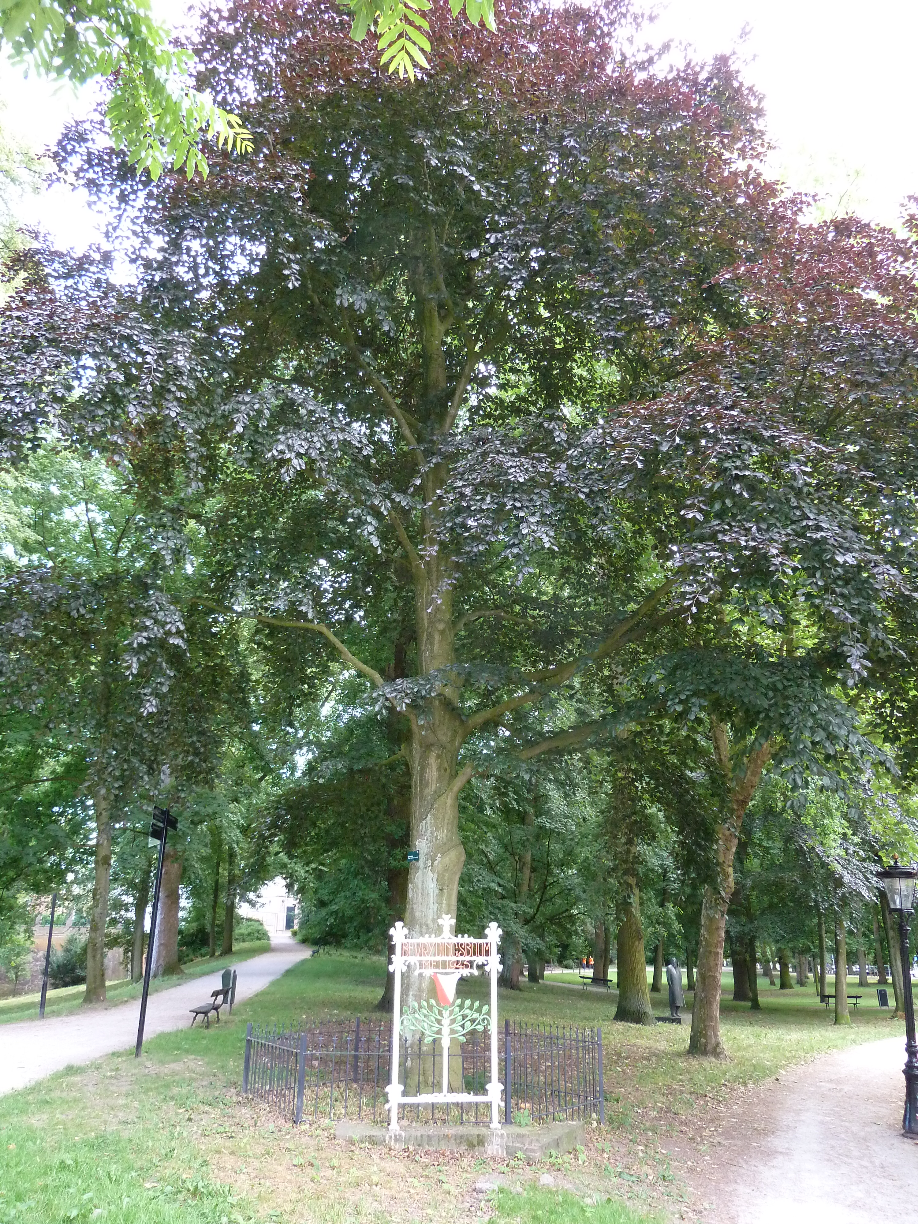 Liberation Tree, Servaasbolwerk Utrecht